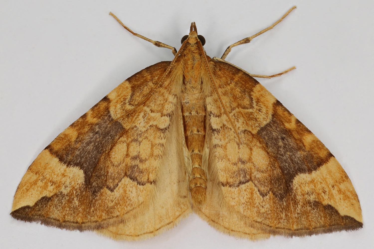 Eulithis populata, Northern Spinach, Trawscoed, North Wales, Aug 2015